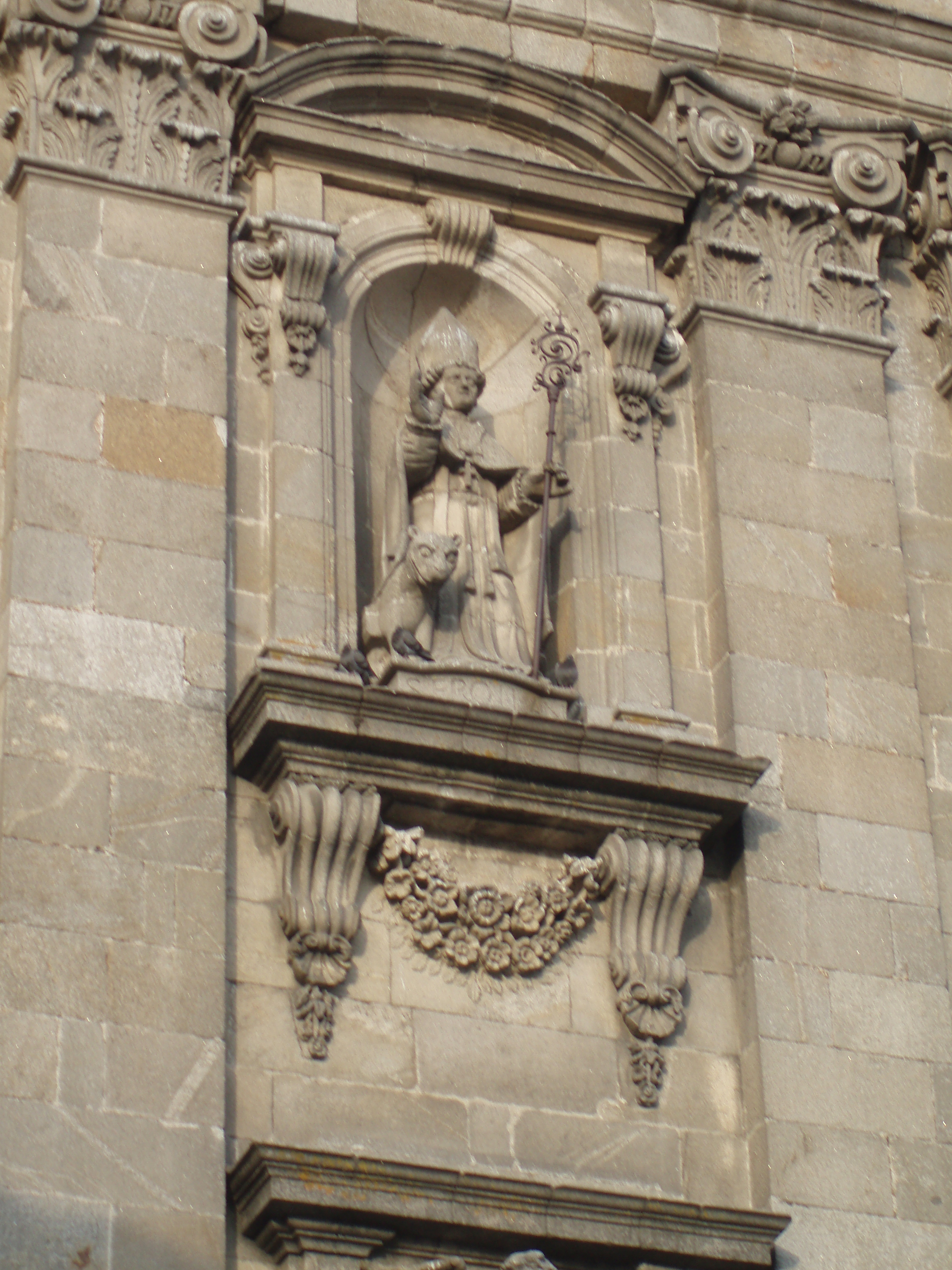 Cathedral of Lugo, in Galicia. (Spain).